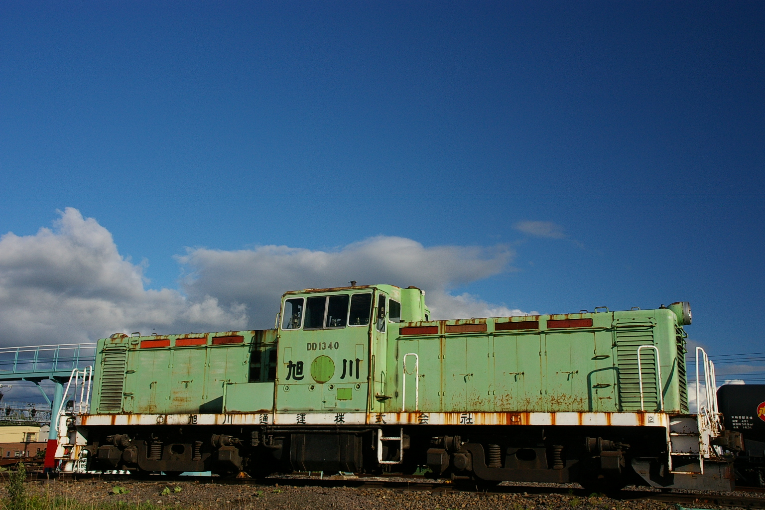 Asahikawa transport DD13 40.